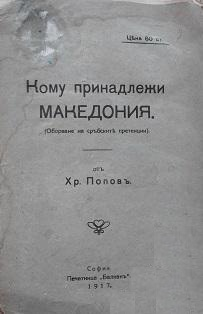 Whose is Macedonia by Hristo Popov